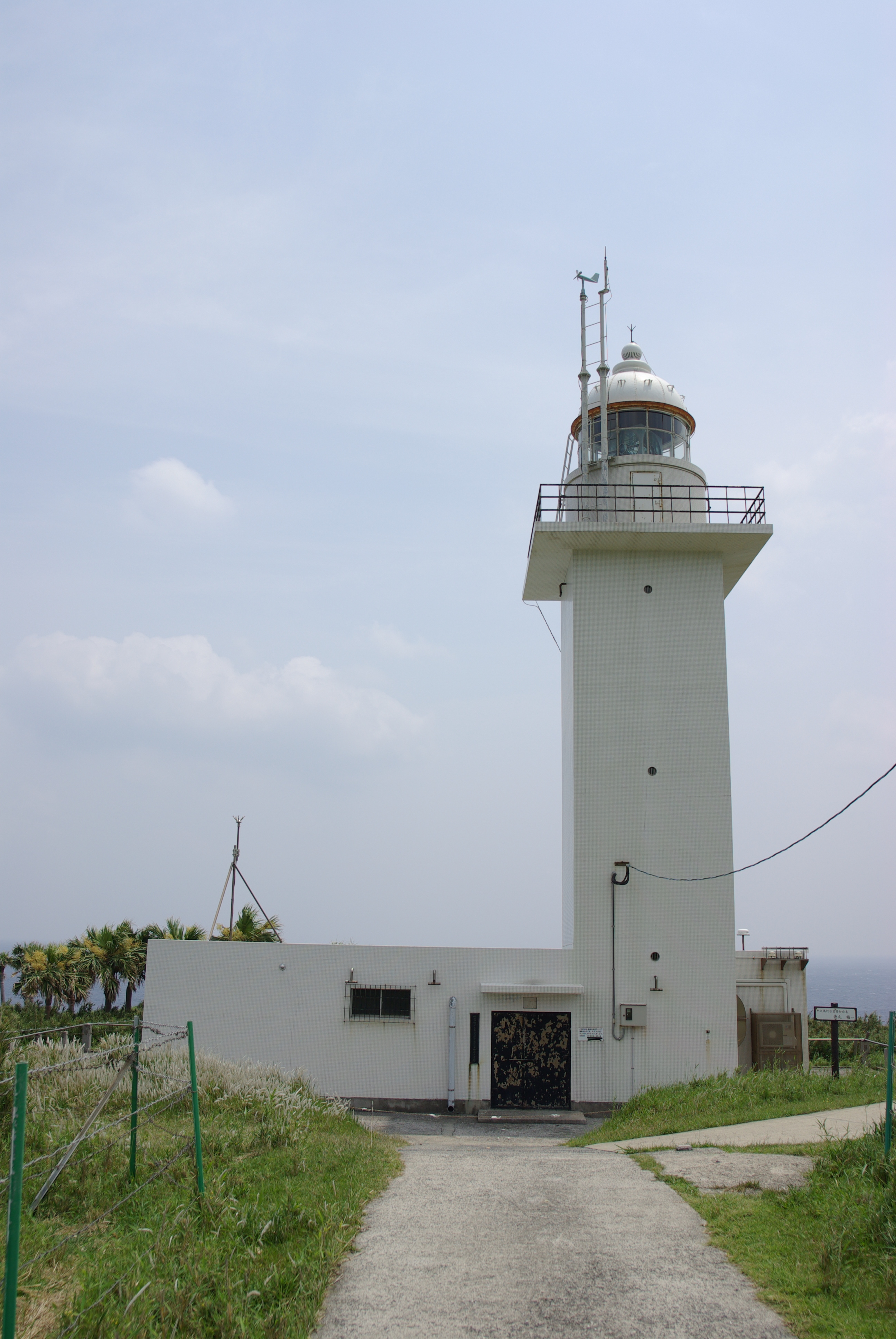 Nakanoshima lighthouse, Kagoshima Prefecture